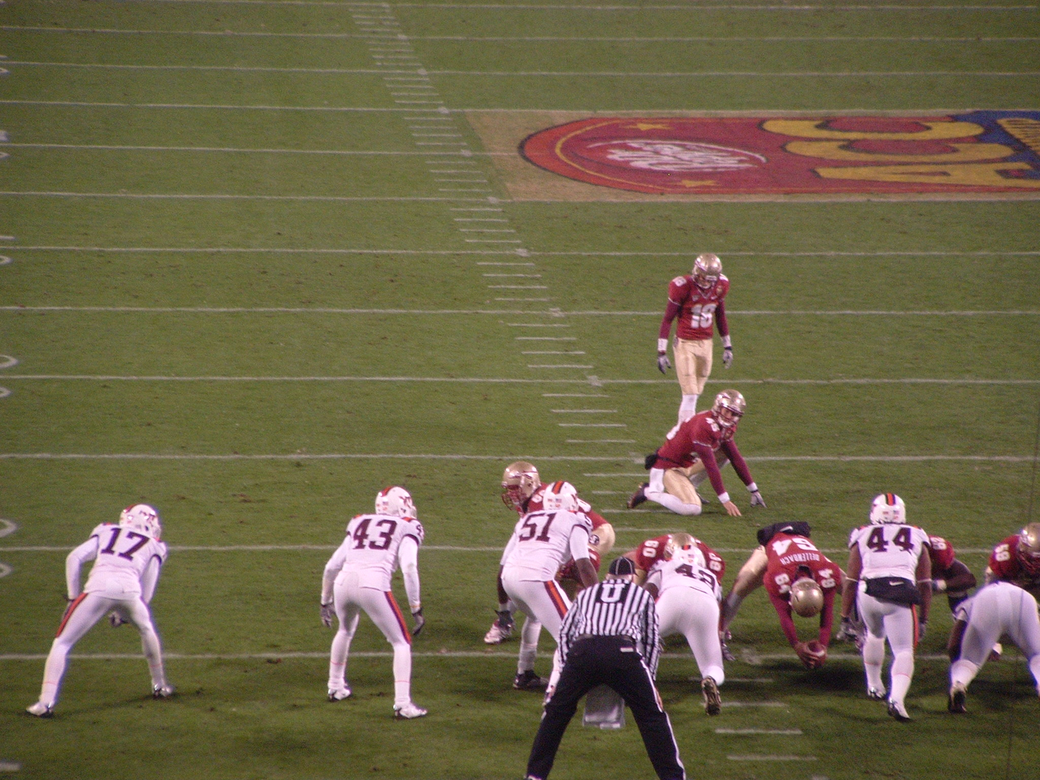 Florida State field goal attempt, 1st quarter, 2010 ACC Championship Game.